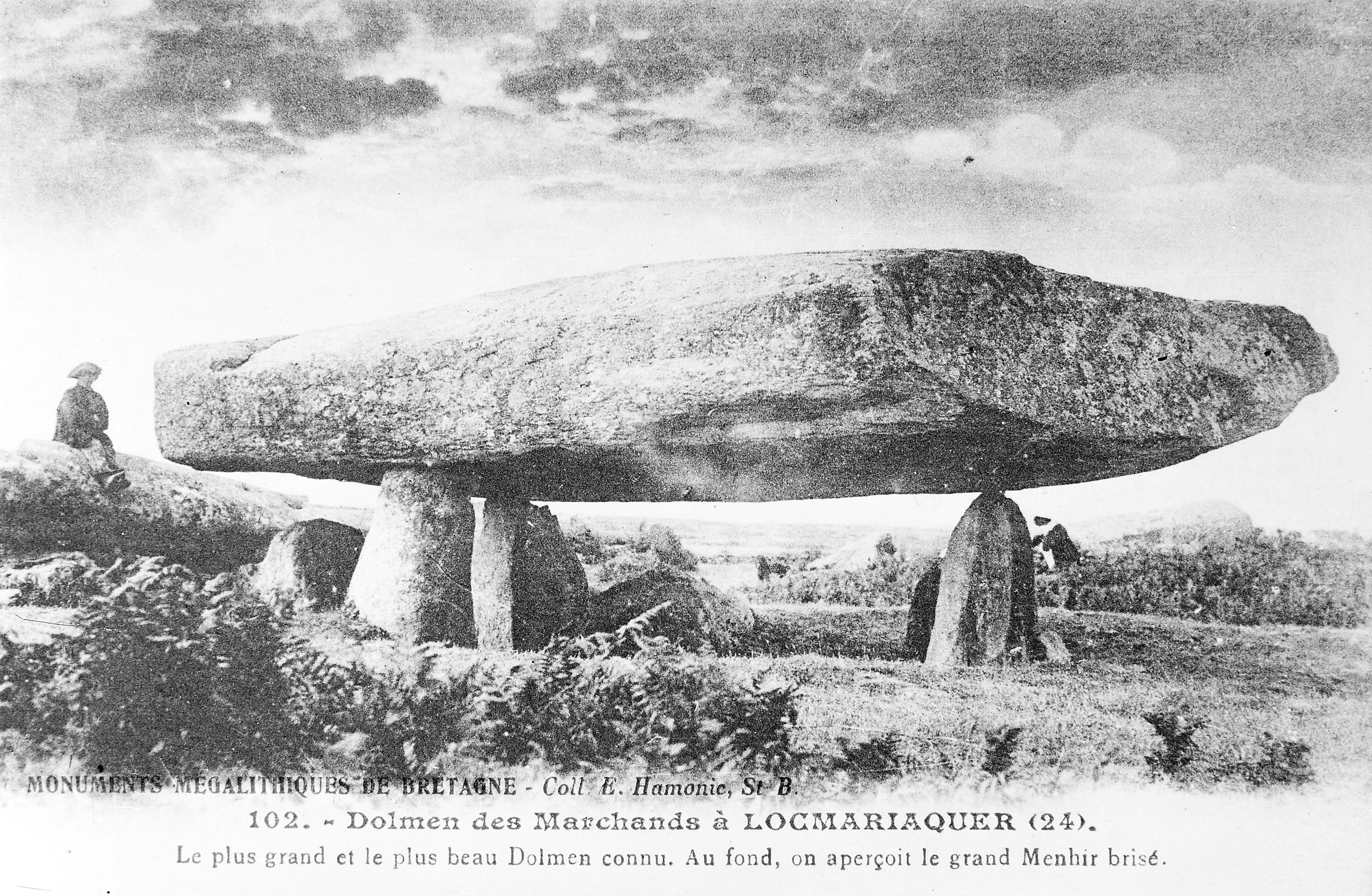 Megalith, Dolmen des Marchands, at Locmariaquer (Morbihan). This is the largest known megalith of its kind. from the Collection Hamonic, Monumnets Megalithiques de Bretagne. Wellcome Images Keywords: Religion; megaliths; prehistory; Archaeology